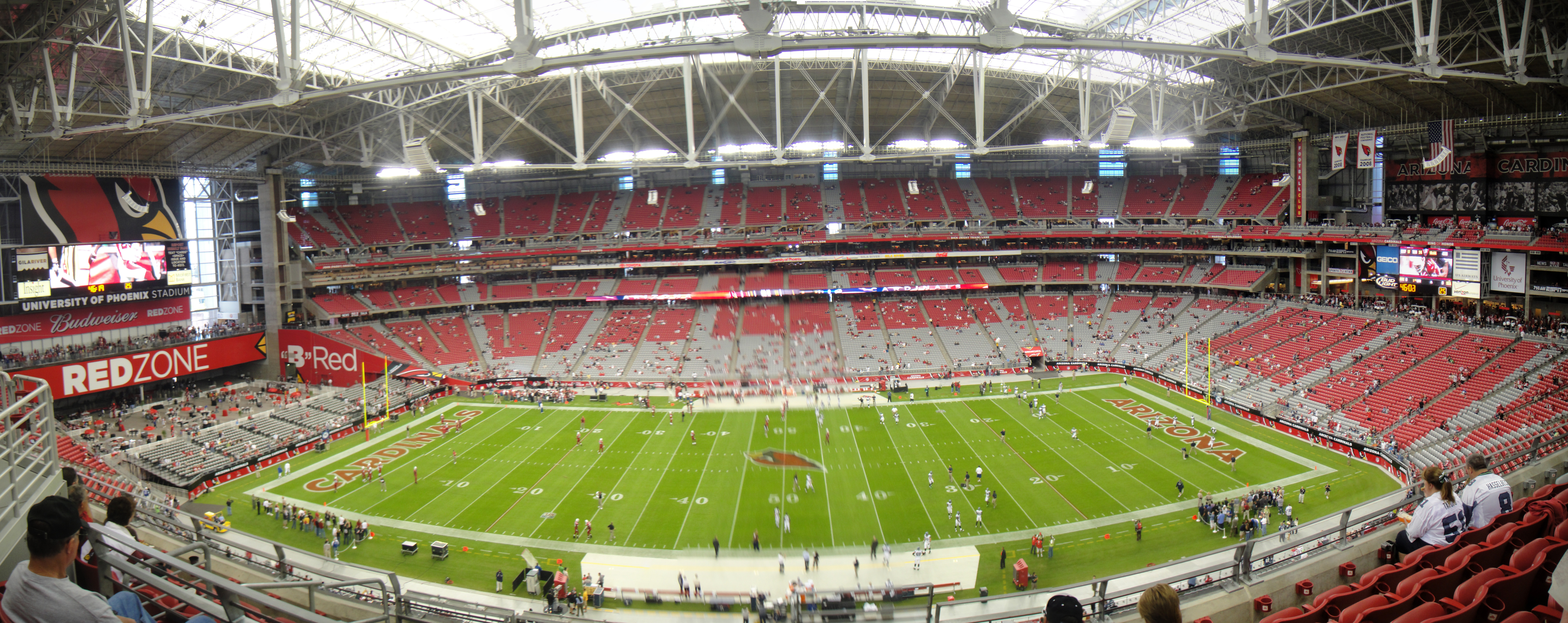 View inside the University of Phoenix Stadium from the 50 yard line of the upper level during the pre game warm ups of the Arizona Cardinals vs Seattle Seahawks.